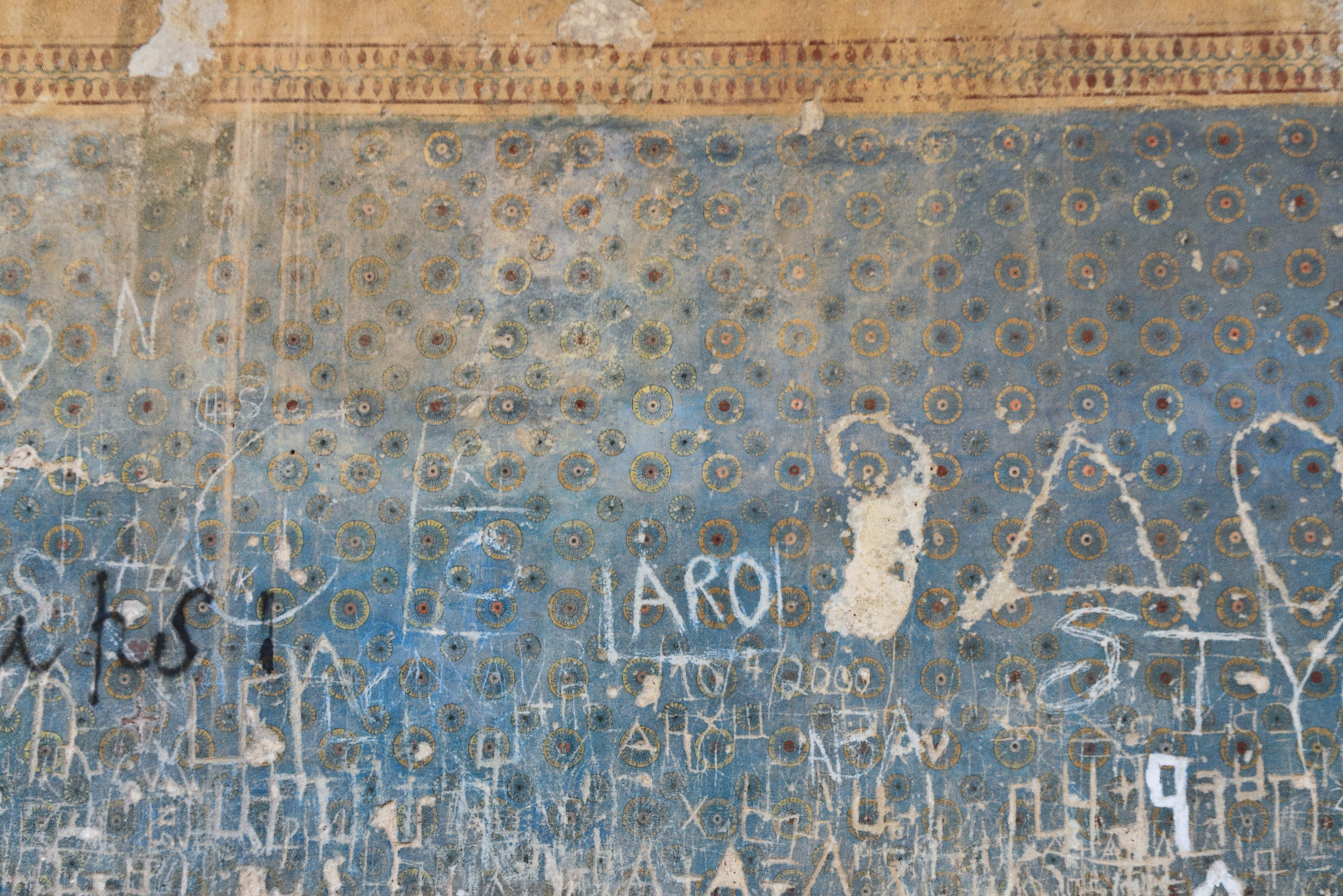 The ruins of the Erebuni Fortress. Erebuni District. Yerevan, Armenia.